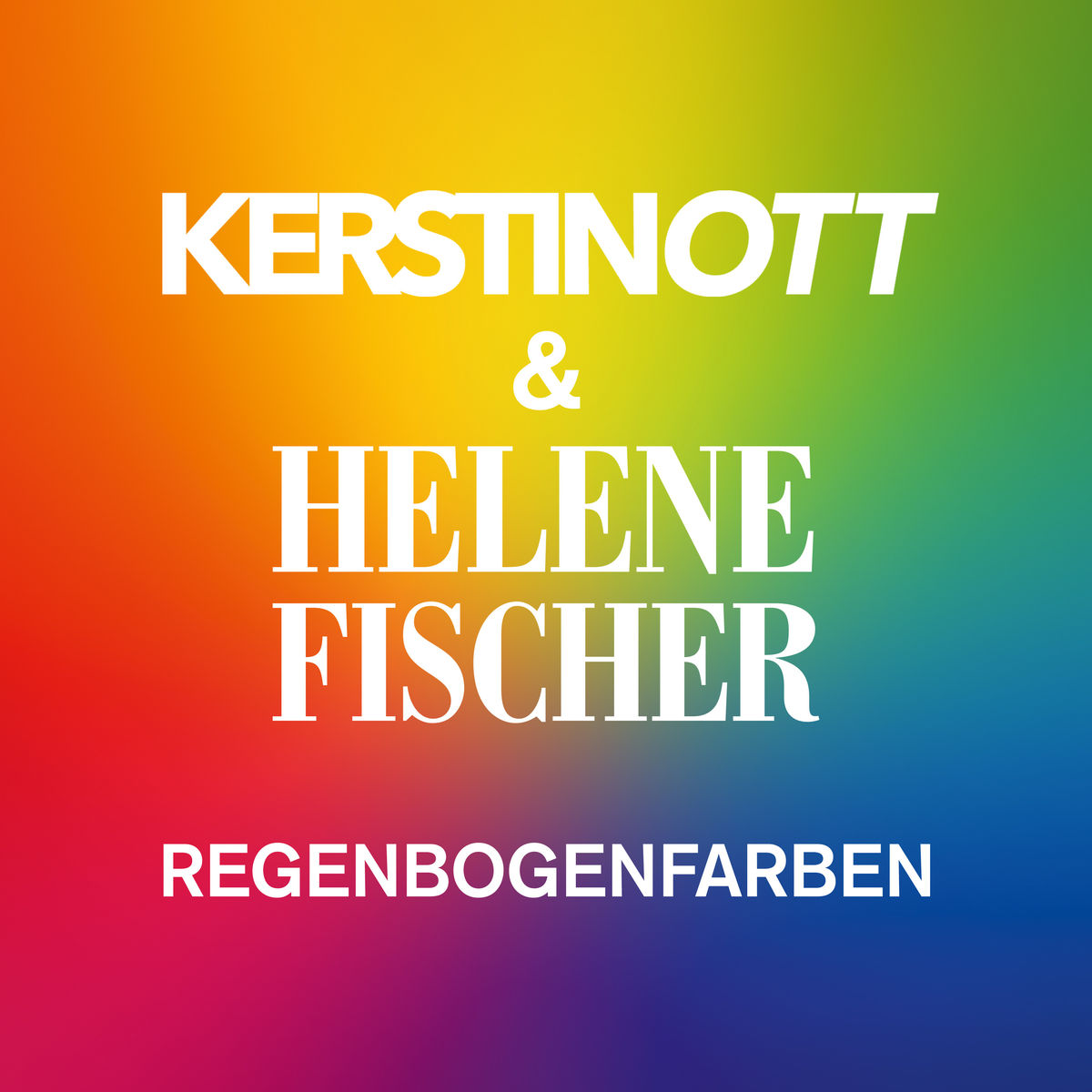 „Regenbogenfarben“ Single-Cover by Kerstin Ott & Helene Fischer.